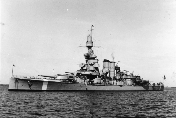 The Swedish coastal battleship HMS Sverige during world war two.